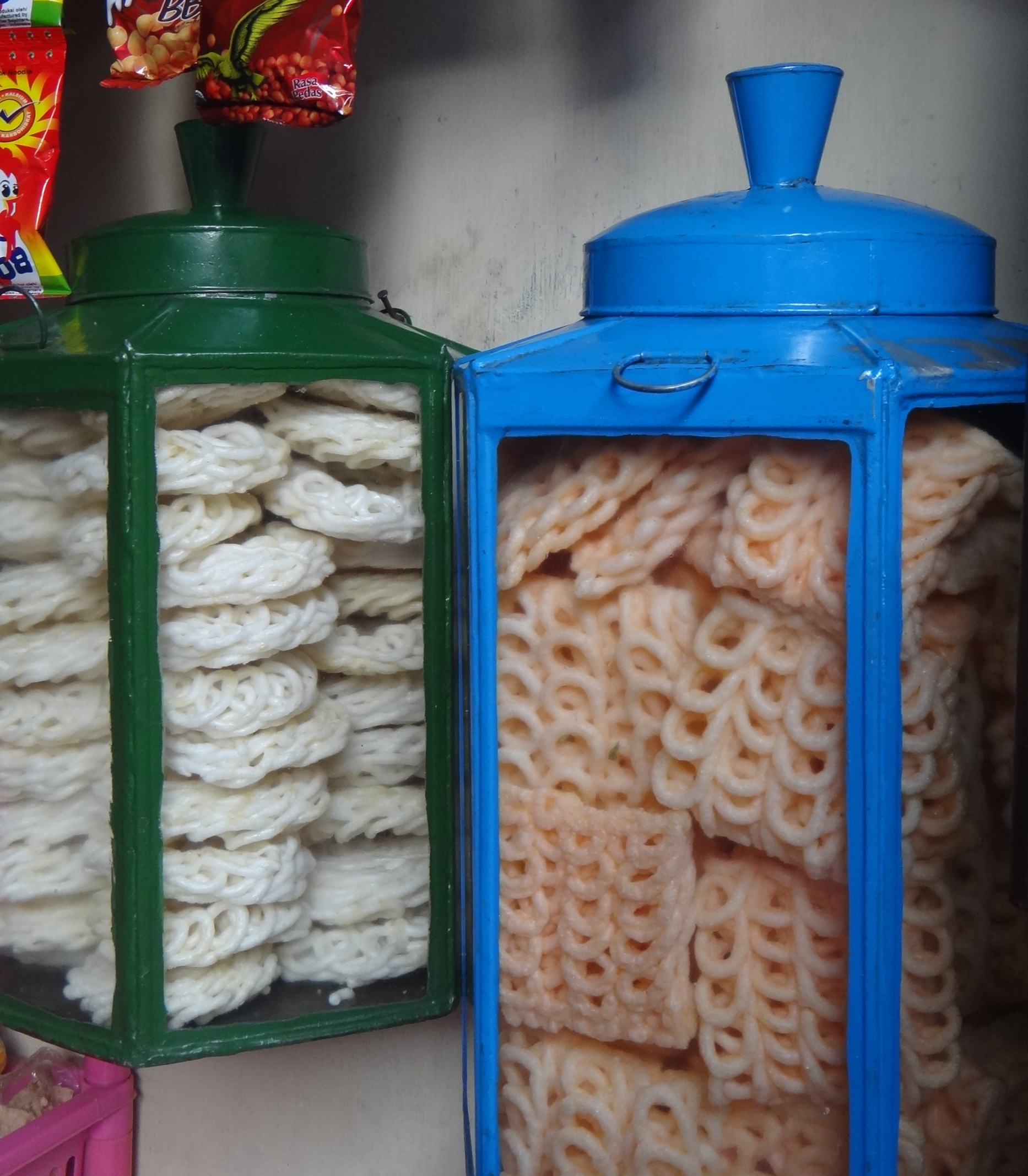 Krupuks